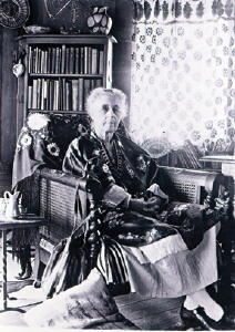 Mary Neosho Williams (d. 1914), widow of Civil War General Thomas Williams, and developer of Evergreen retreats